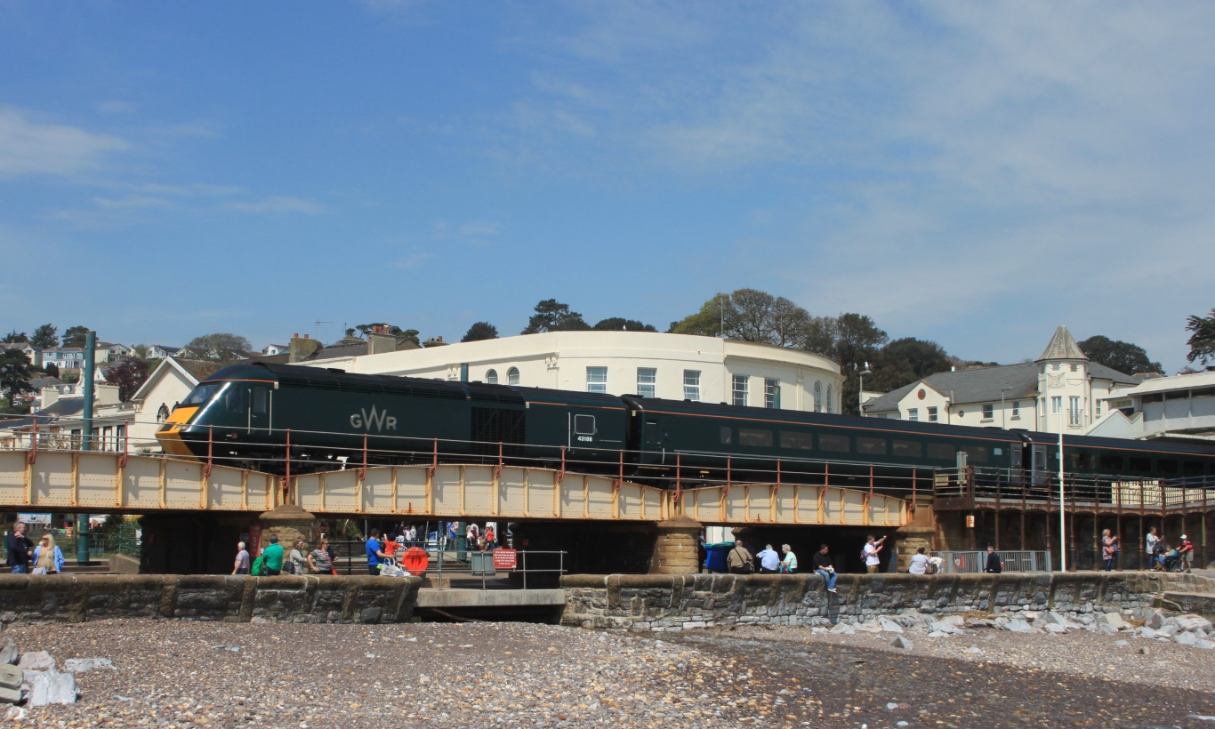 A Great Western Railway high speed train, with power car 43188 on the back, crosses the Colonnade Viaduct at Dawlish.